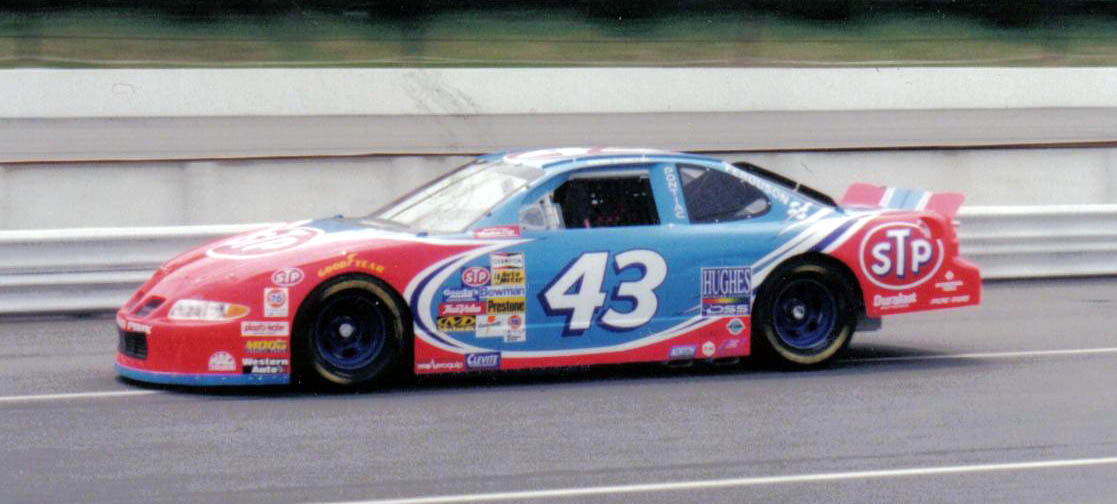 NASCAR driver Bobby Hamilton at Pocono in 1997.